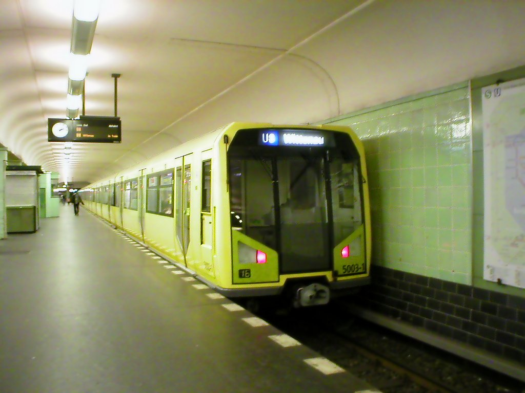 Berlin U-Bahn train of type H at Leinestraße station